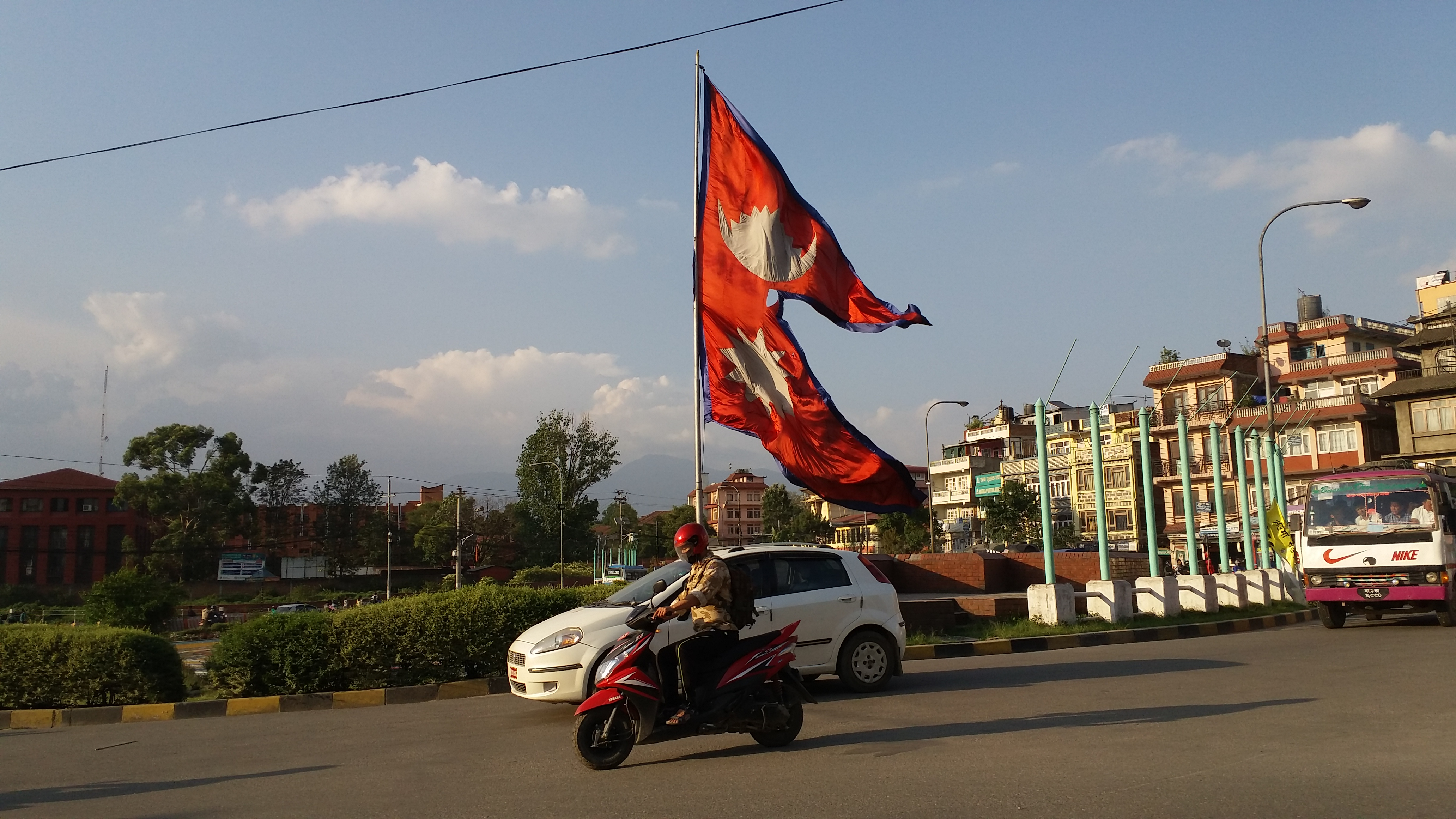 Flag of Nepal at Maitighar mandala Kathmandu.